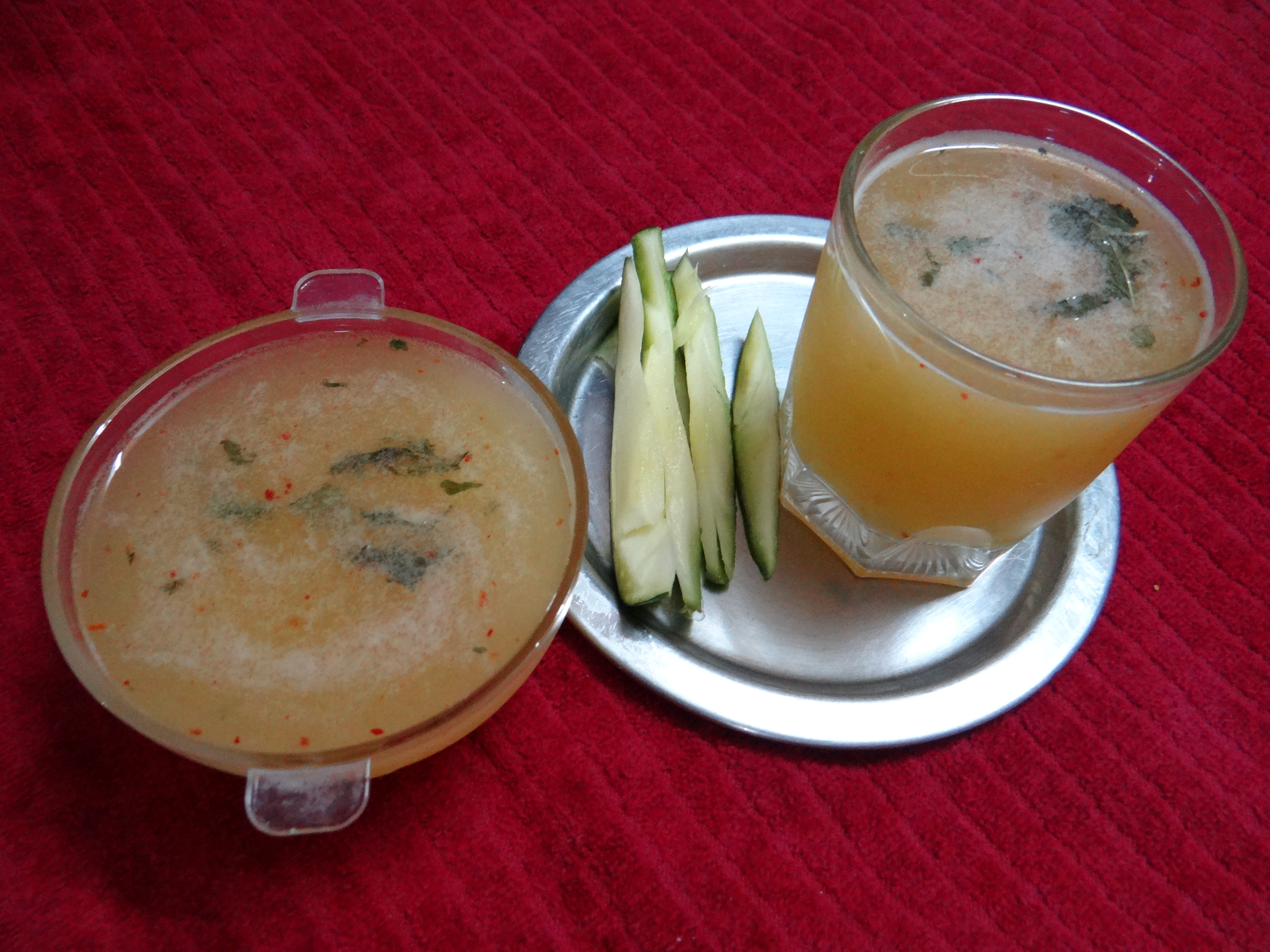 Made with raw green mangoes. First Boil the mangoes than mash with water and mix the spices and salt and it is ready to drink.